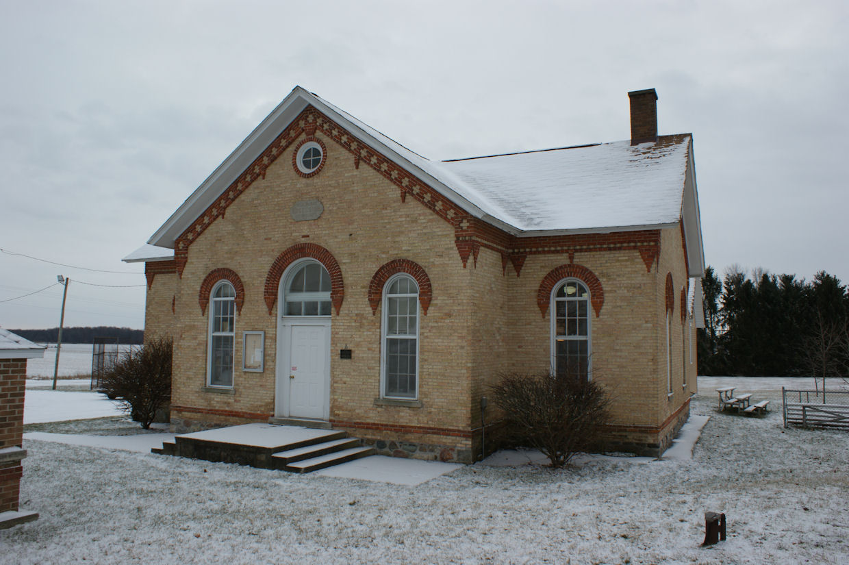 A view of the Mason District Number 5 Schoolhouse viewed from US-12